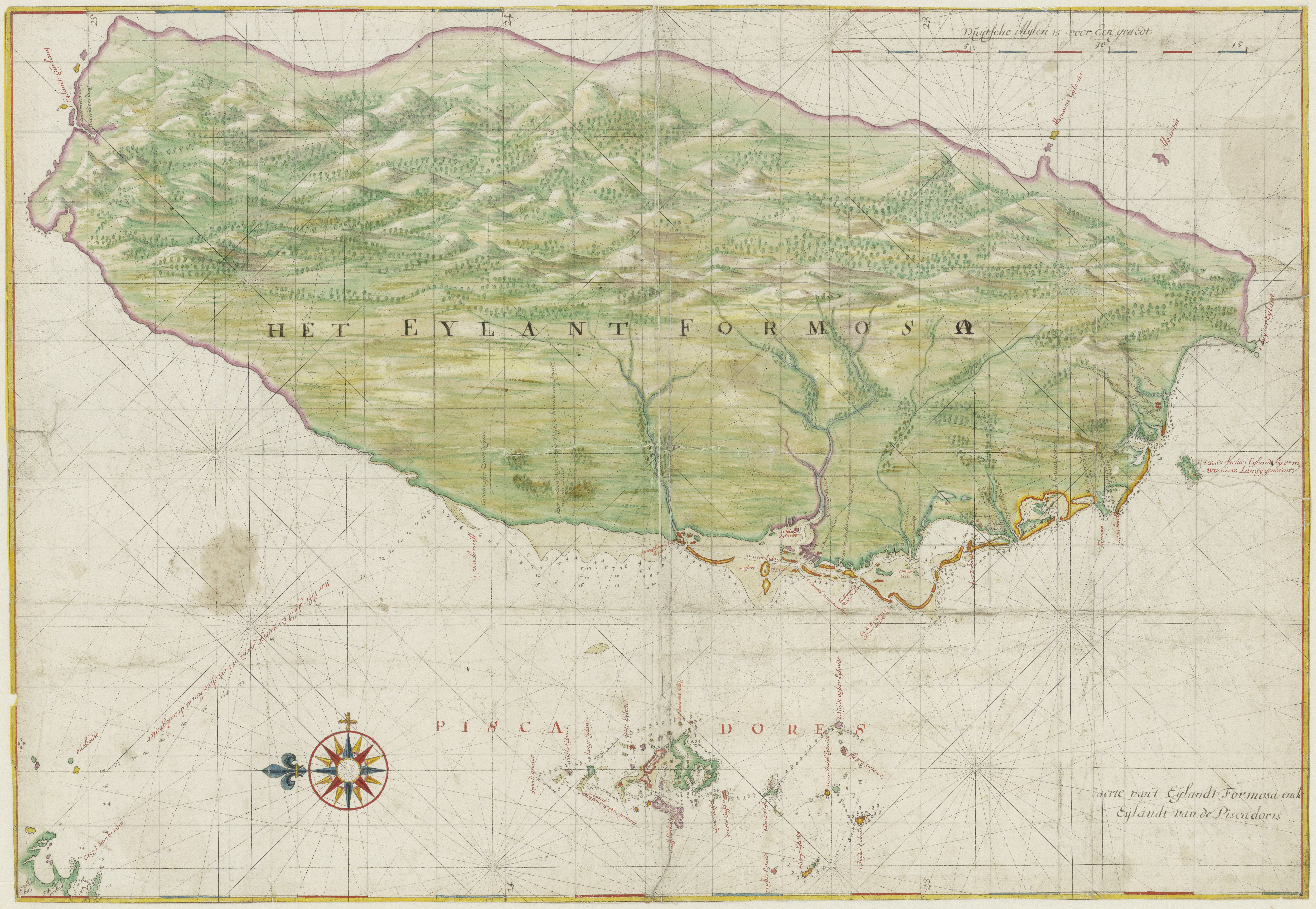 The Island Formosa and the Pescadores